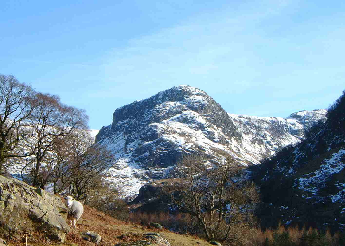 Personal photograph taken on March 22nd 2006 by Mick Knapton